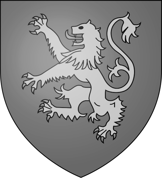 Coat of arms of Henry II of England. Blazon: Gules a lion rampant Or.